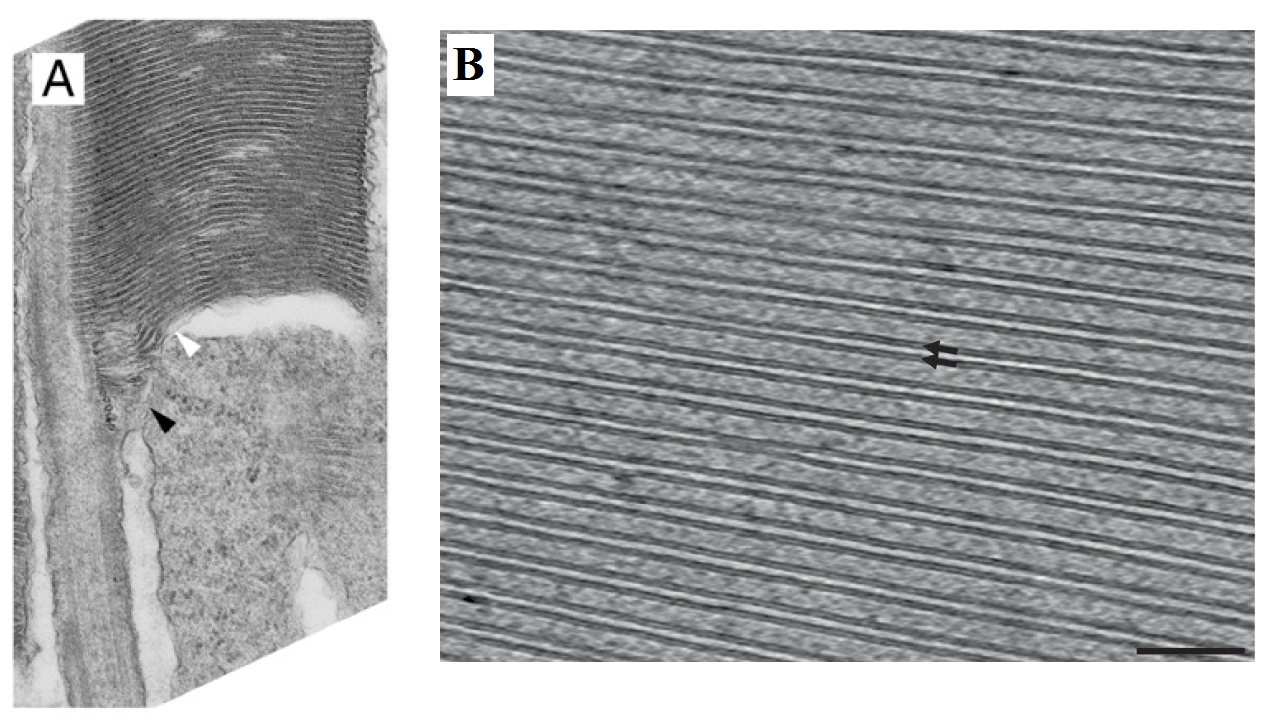 (A) Electron micrograph of a stained rod photoreceptor outer segment (B) Electron micrograph of stack of outer segment disk membranes